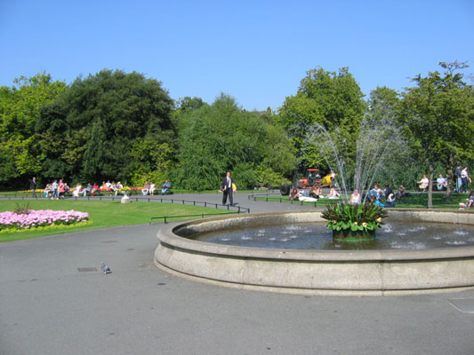 Fountain in the center of St. Stephen's Green park in Dublin, Ireland. Taken 9/9/2004 by Jeremy Kemp